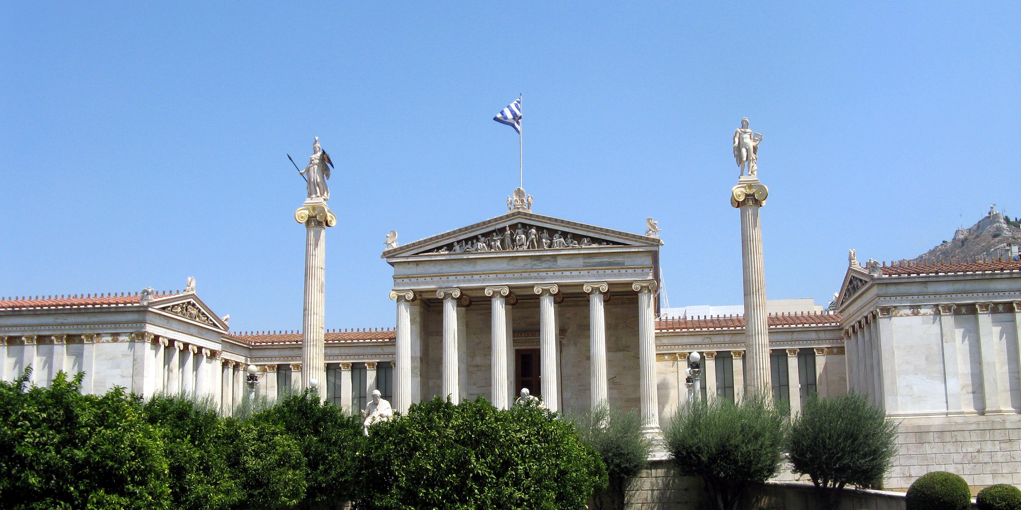 Academy of Athens